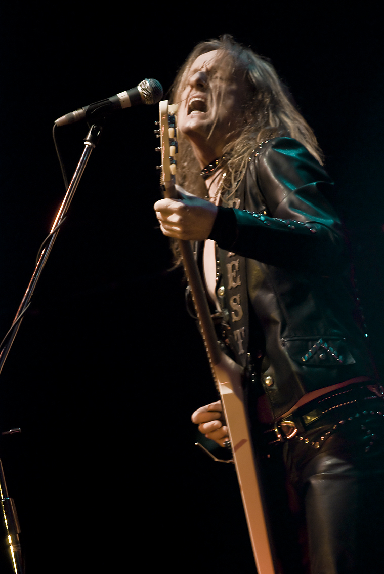 K. K. Downing (priest feast, palasharp, milano, 10.03.2009 )